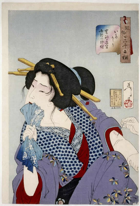 Itasô Kansei nenkan jorô no fûzoku Colour print from woodblocks with textile printing (nunomezuri), gloss black (tsuyazumi) and imitation woodgrain (itame mokuhan). Ôban format. Publisher: Tsunashima Kamekichi. First edition, printed 25/02/1888. Block-cutter: Wada hori Yû.